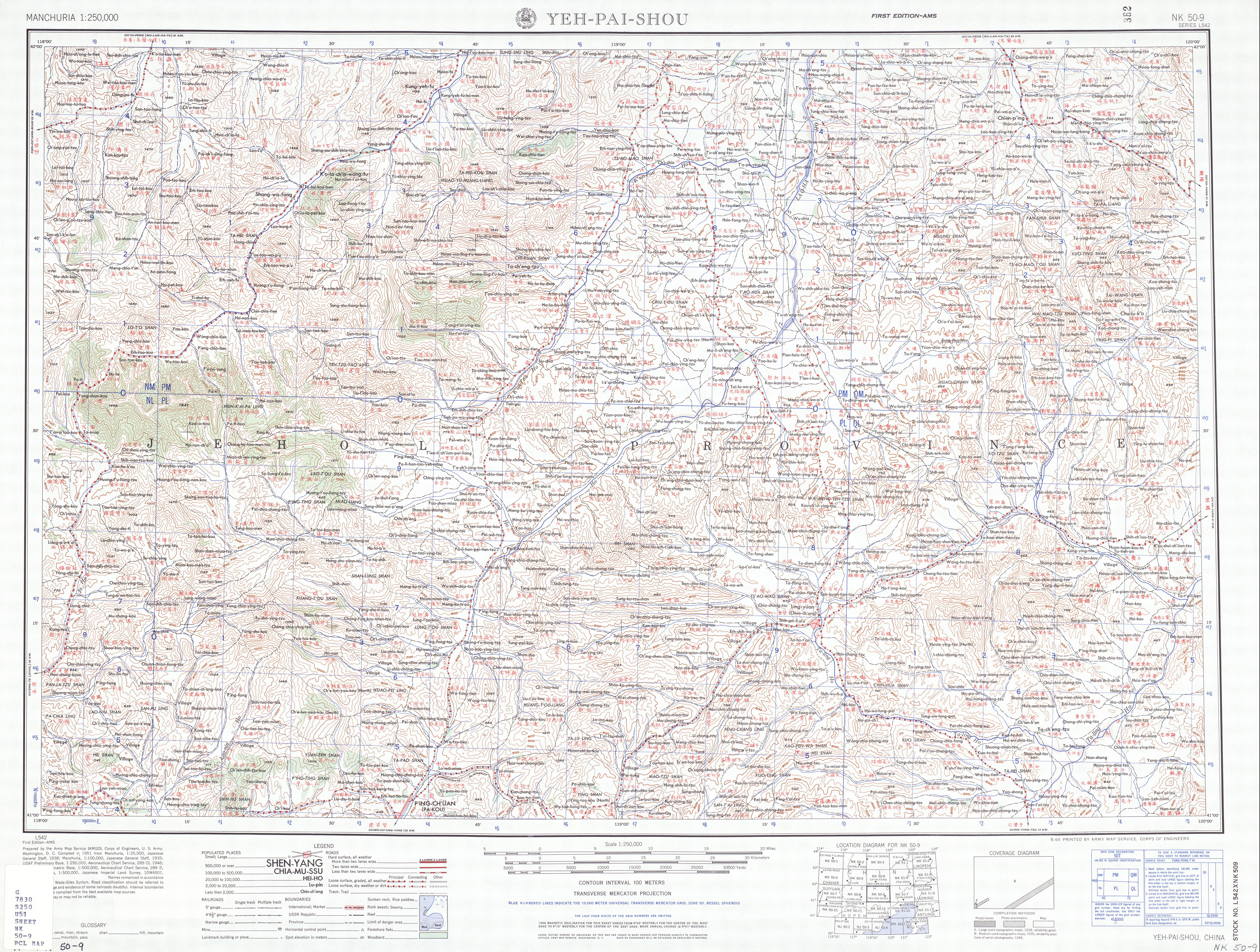 Manchuria AMS Topographic Maps